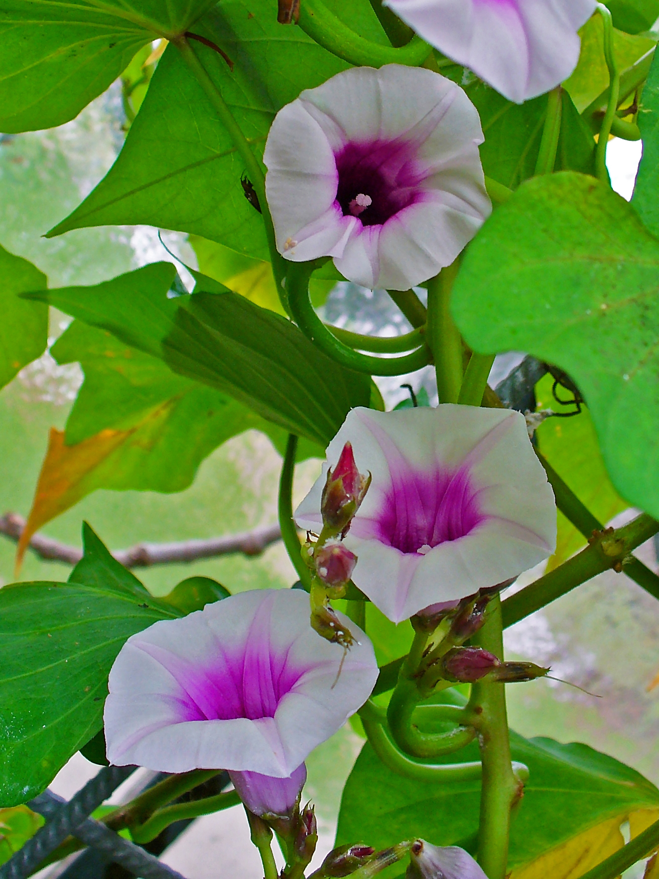 Ipomoea batatas, Convolvulaceae, Sweet Potato, flowers; Botanical Garden KIT, Karlsruhe, Germany. The plant is used in homeopathy as remedy: Ipomoea batatas (Ipom-b.)